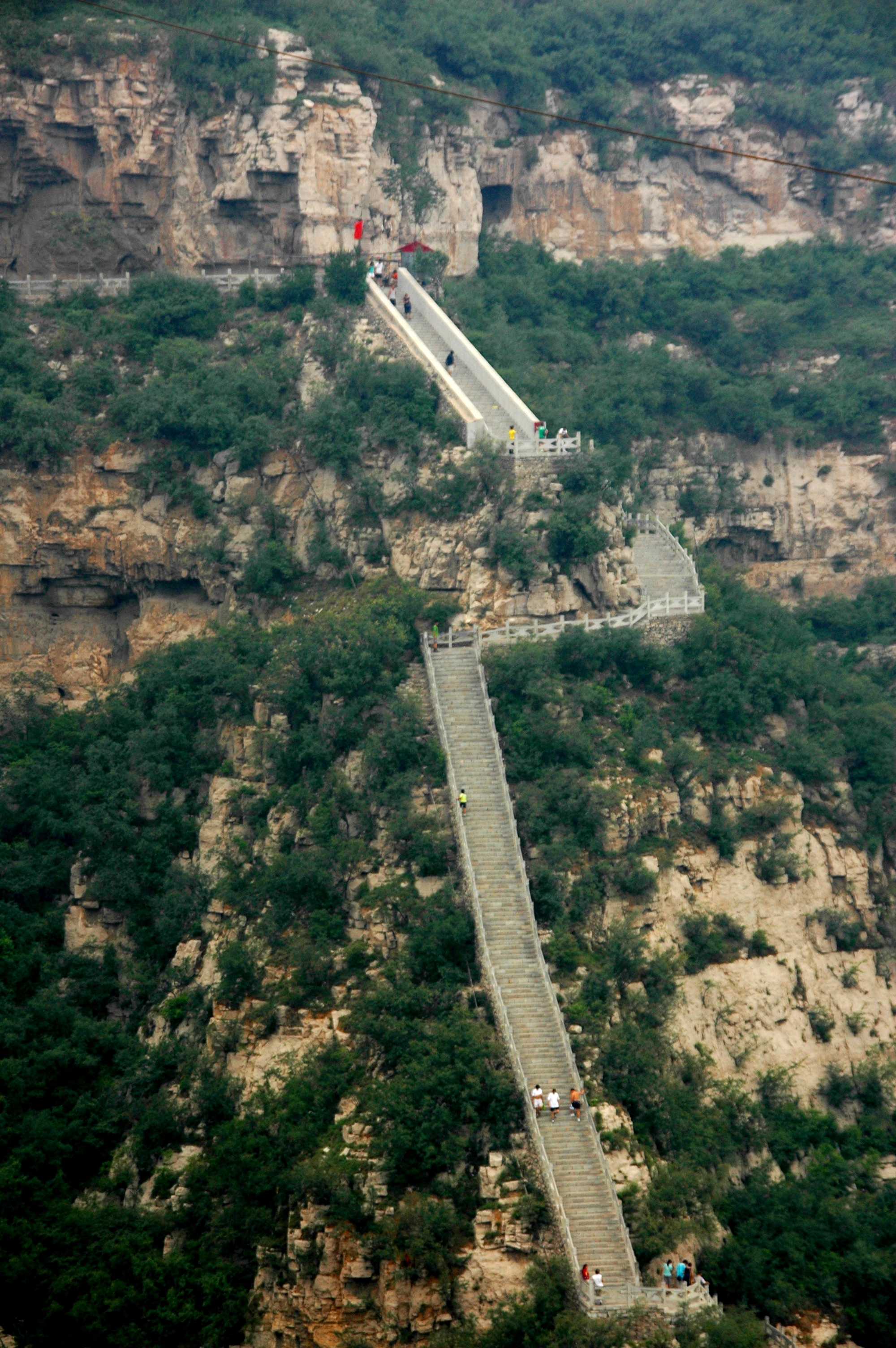 View of a section of the footpath ascending to Baodu Zhai, Shijiazhuang, China. Taken from the cablecar.